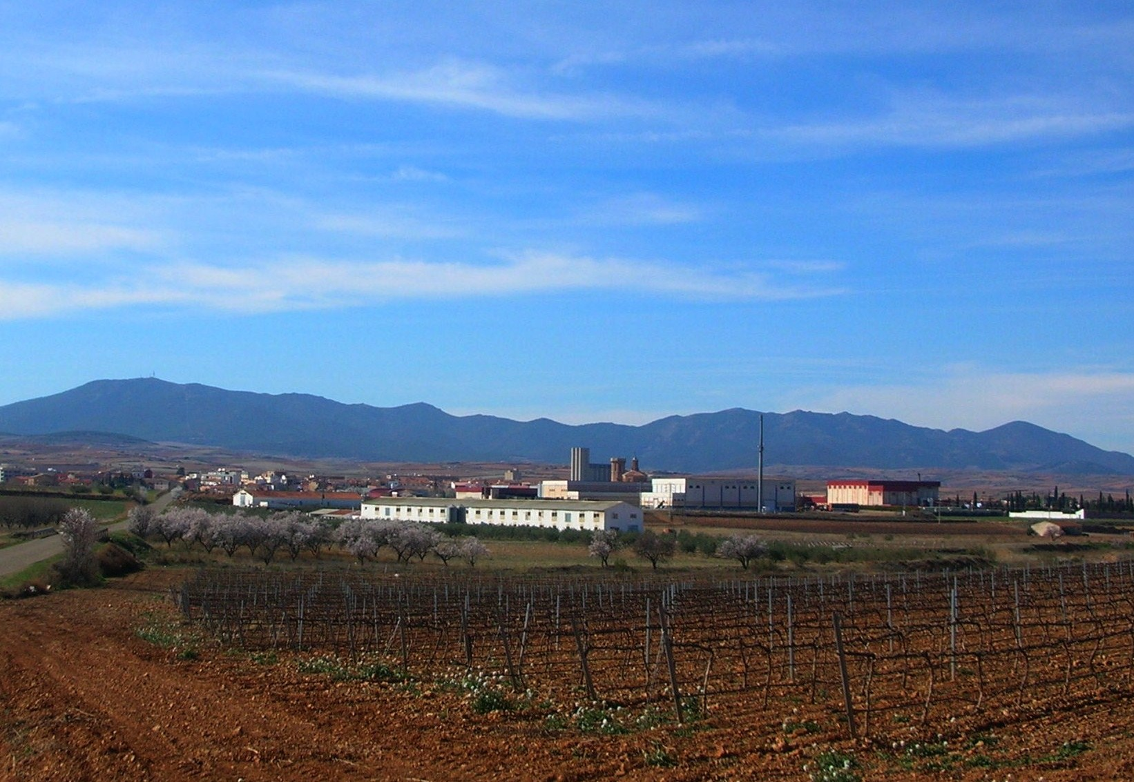 Sierra de Algairén behind Carinena town